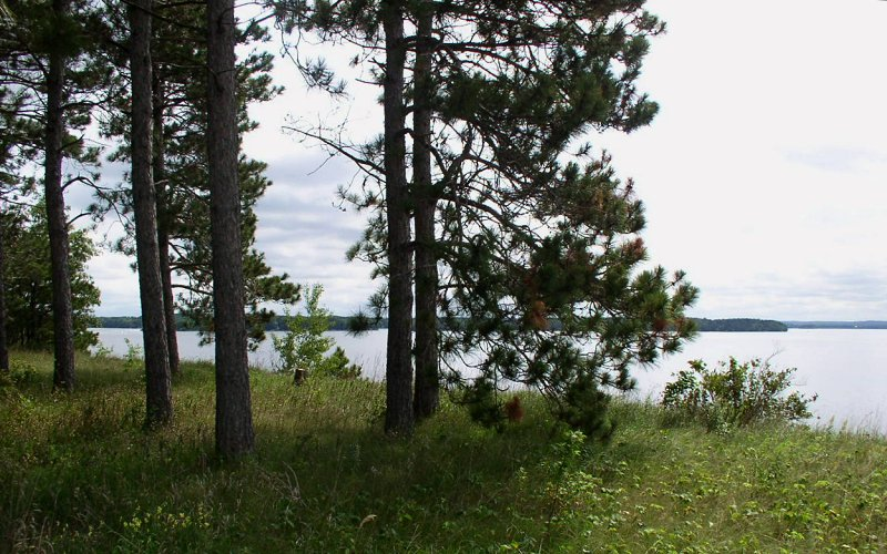 Picnic Overlook: Lake Wissota State Park, WI, USA